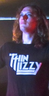 Dan Hawkins of The Darkness